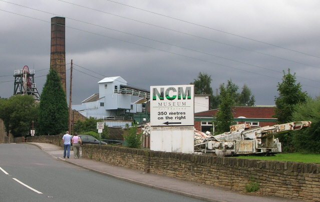 The National Coalmining Museum for England near to Overton, Wakefield, Great Britain. The museum is situated at Caphouse Colliery near Wakefield and provides an insight into English coal mining including trips underground. Subject GR: SE252164. Observer GR: SE253164.